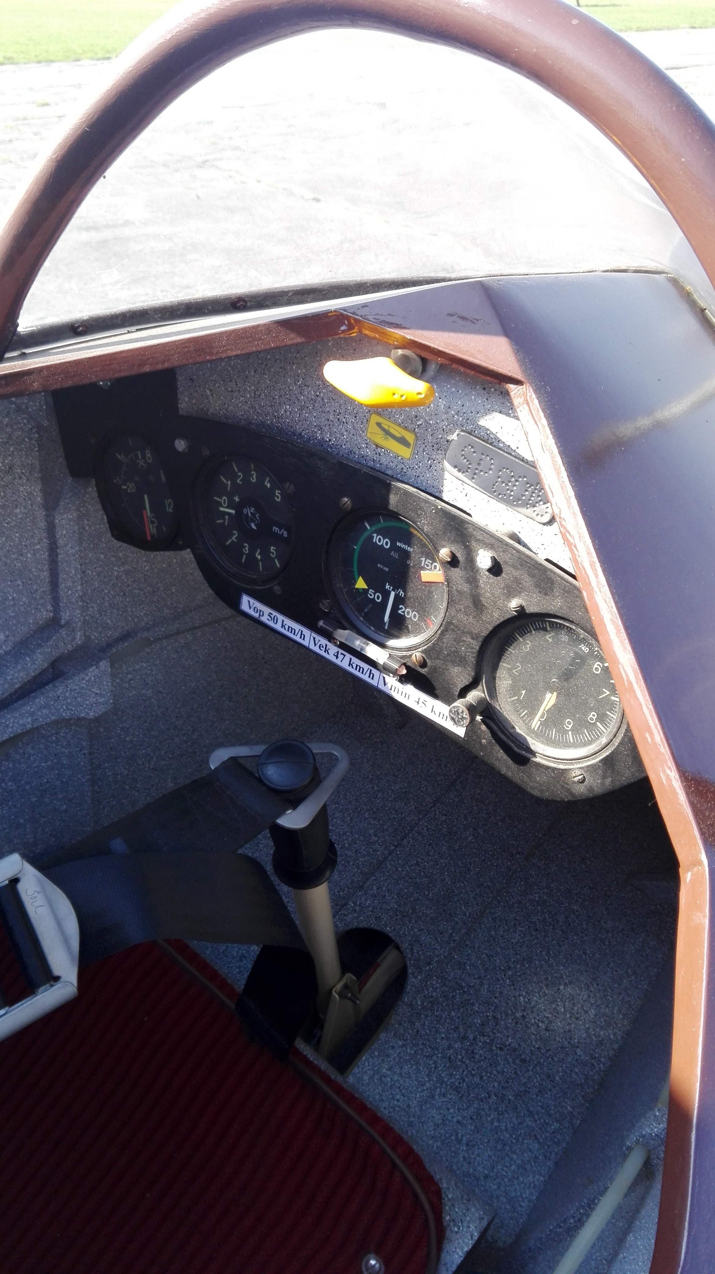 Cockpit of IS-A Salamandra